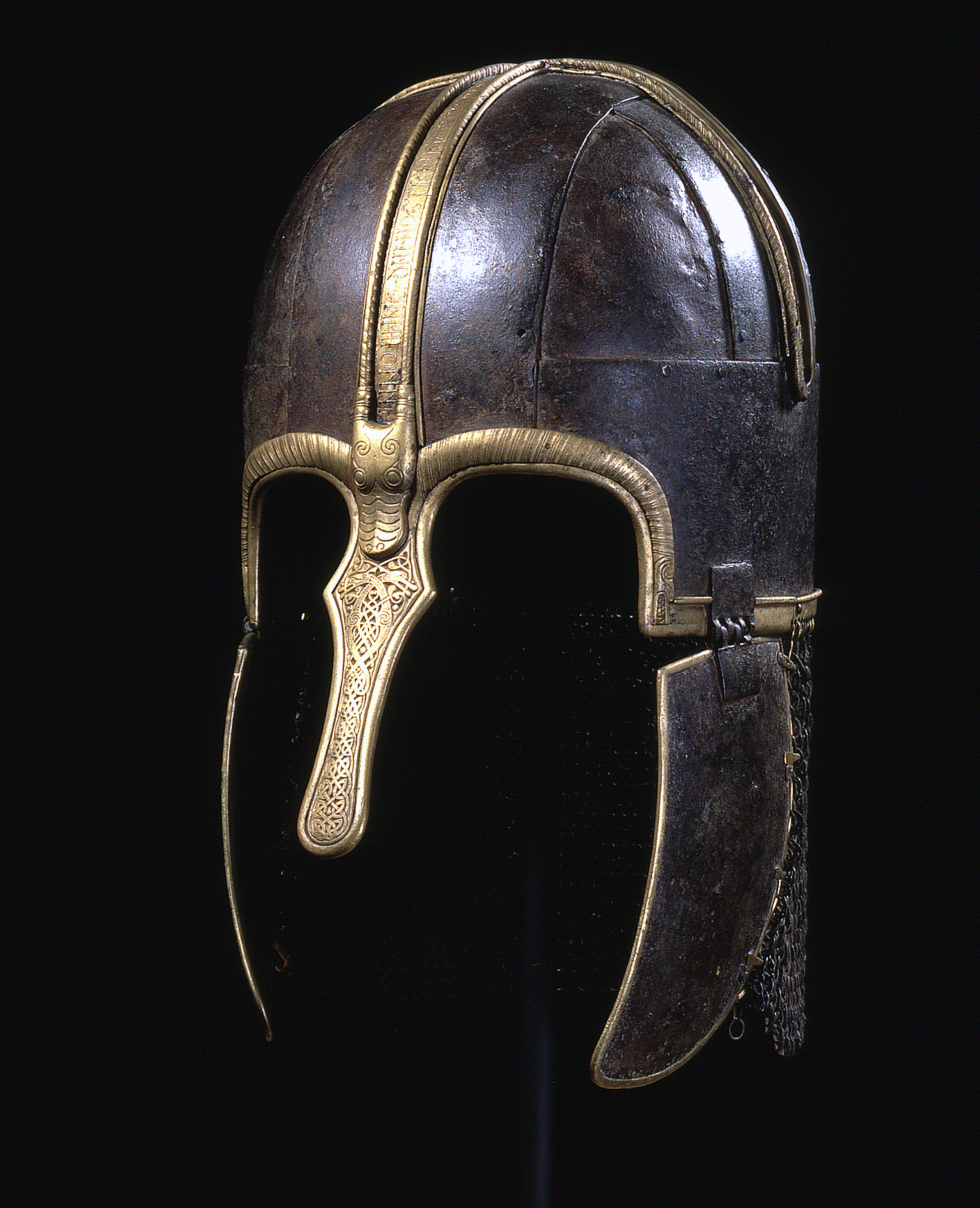 The 8th century York Helmet is the most outstanding example of the Anglo-Saxon period to survive in Europe.